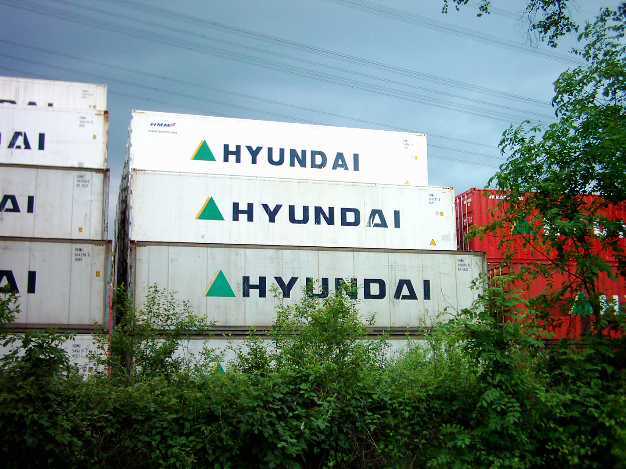 Hyundai containers in Hamburg, Germany.